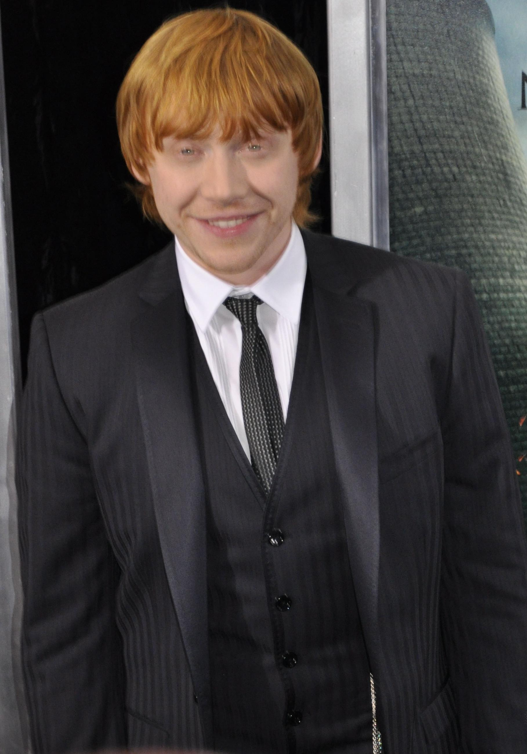 Rupert Grint at the film premiere of Harry Potter and The Deathly Hallows in Alice Tully Center, New York City in November 2010.